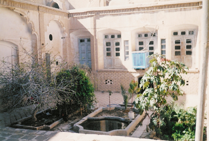 Purhakimi House - Kashan